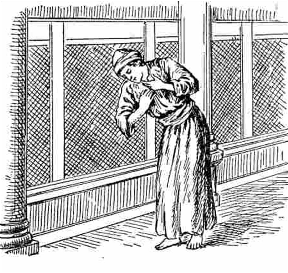 croped version of M. Bihn & J. Bealings 1922